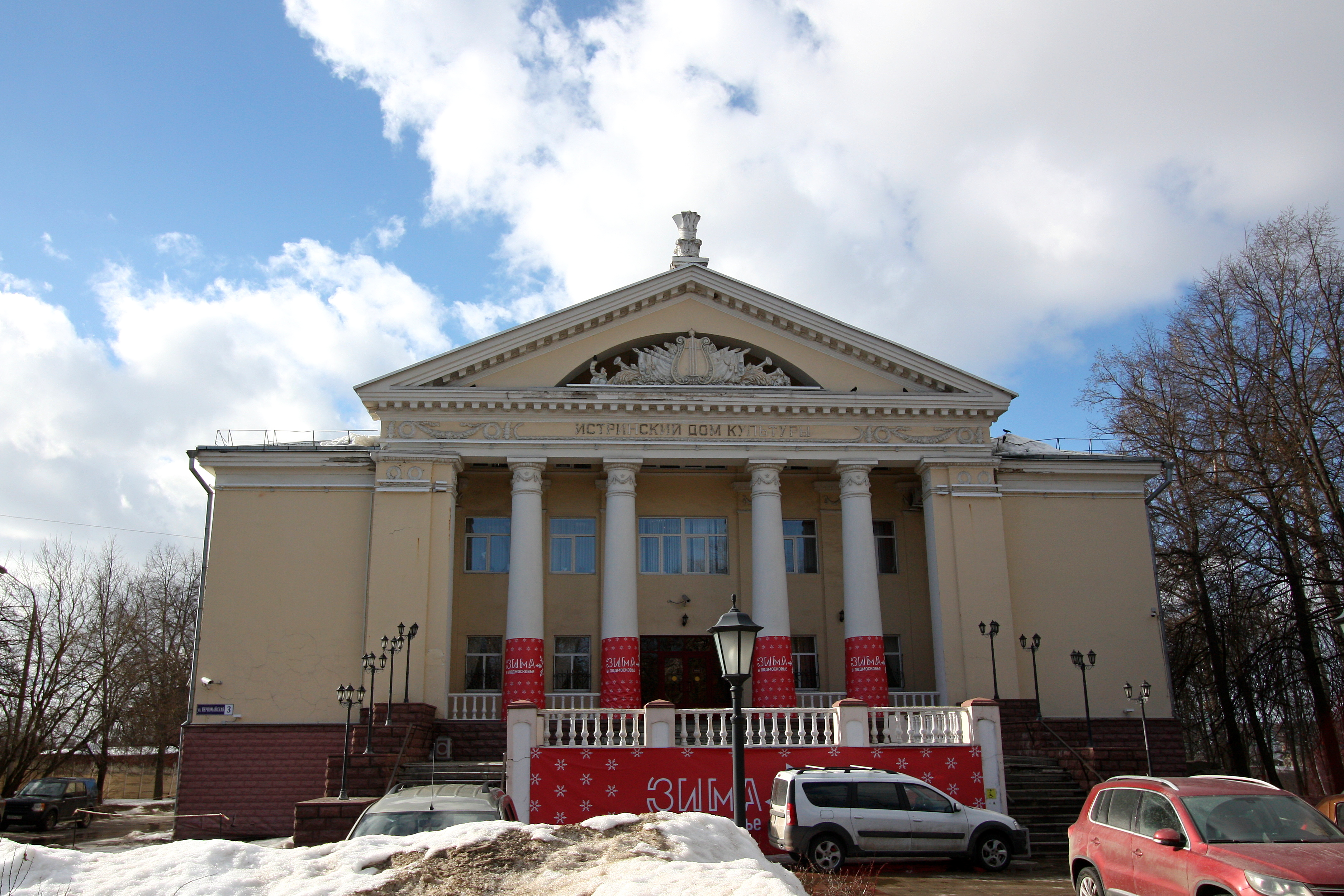 Istra house of culture (Pervomayskaya str., 3). The city of Istra, city of Istra district, Moscow oblast, Russia.